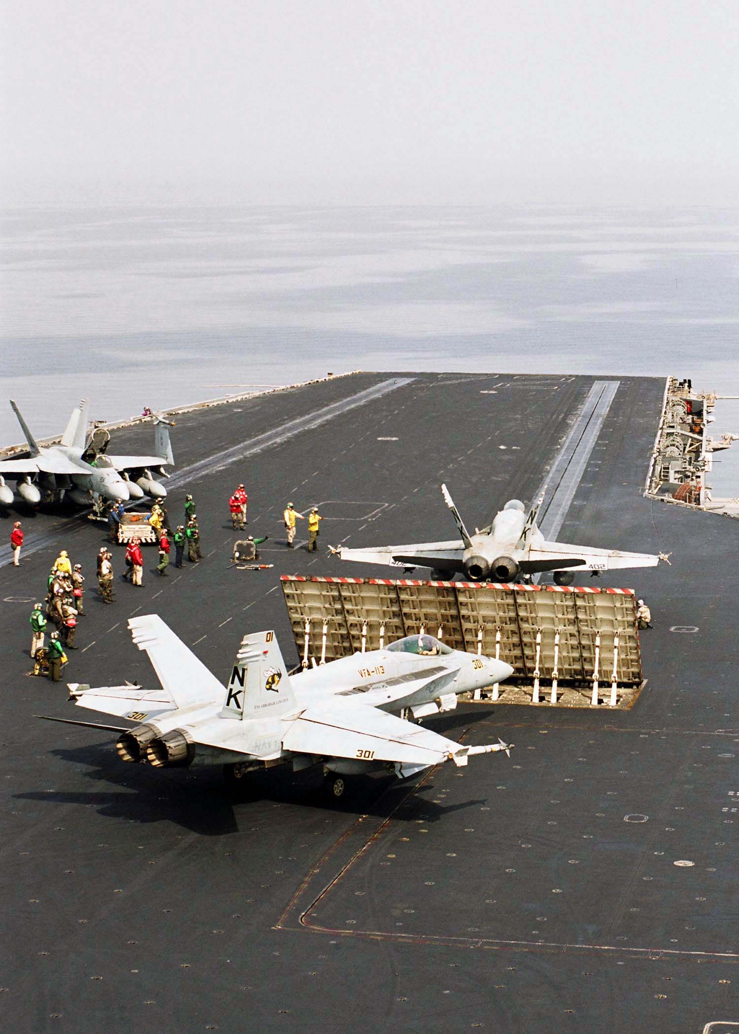 The Arabian Gulf (Apr. 5, 2003) -- An F/A-18C Hornet assigned to the 'Fist of the Fleet' of Strike Fighter Squadron Twenty Five (VFA-25) prepares to launch from the flight deck of USS Abraham Lincoln (CVN 72), while an F/A-18C Hornet assigned to the “Stingers” of Strike Fighter Squadron One Thirteen (VFA-113) lines-up behind a jet blast deflector (JBD) awaiting to launch. Lincoln and Carrier Air Wing Fourteen (CVW-14) are conducting combat missions in support of Operation Iraqi Freedom. Operation Iraqi Freedom is the multi-national coalition effort to liberate the Iraqi people, eliminate Iraq's weapons of mass destruction, and end the regime of Saddam Hussein. U.S. Navy photo by Photographer's Mate 3rd Class Elizabeth A. Bartneck. (RELEASED)